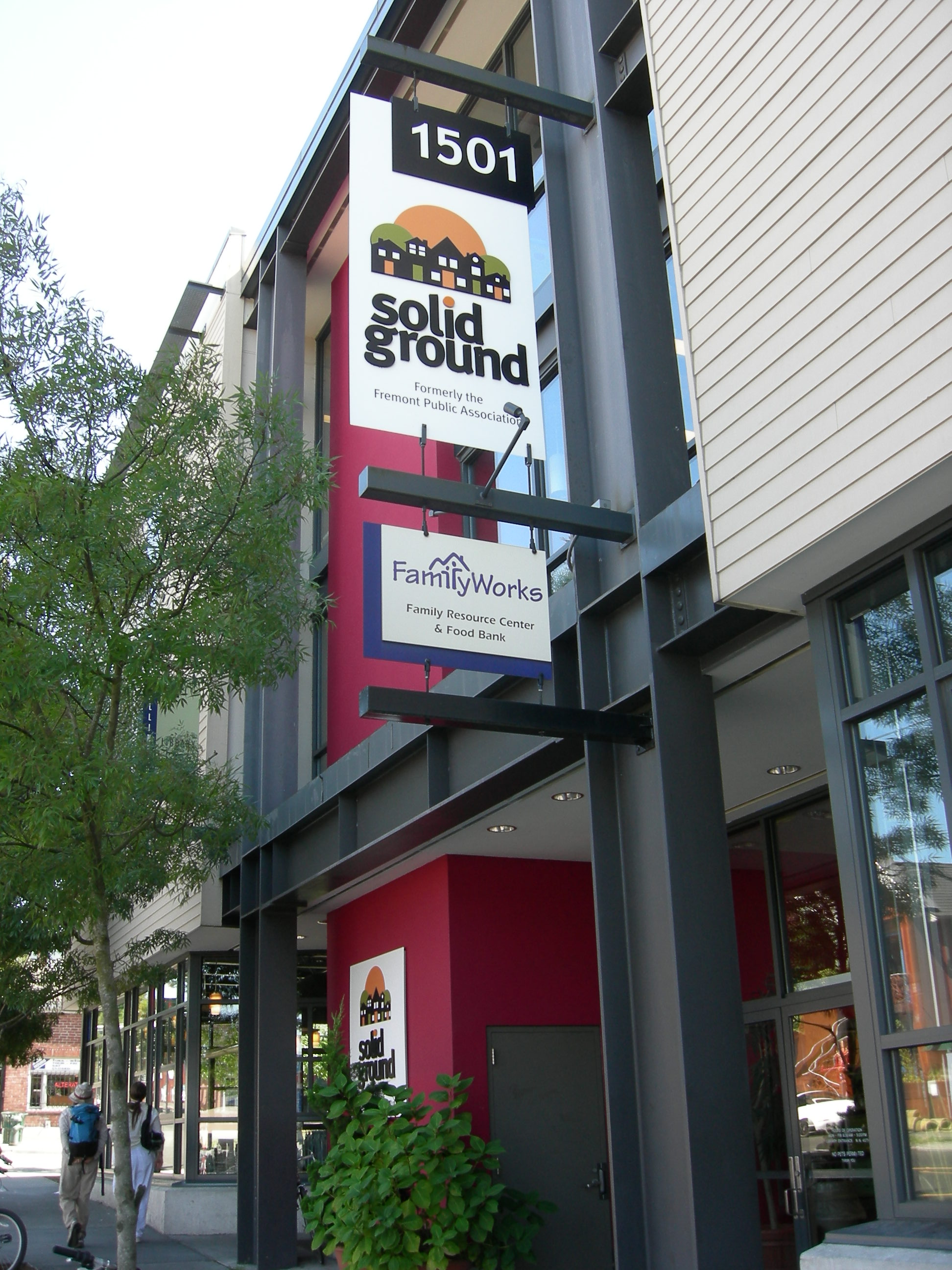 Solid Ground, formerly the Fremont Public Association, in the Wallingford neighborhood, Seattle, Washington. Solid Ground is one of Seattle's leading anti-poverty organizations, with an annual budget of US$18 million. The building also houses the Wallingford branch of the Seattle Public Library.